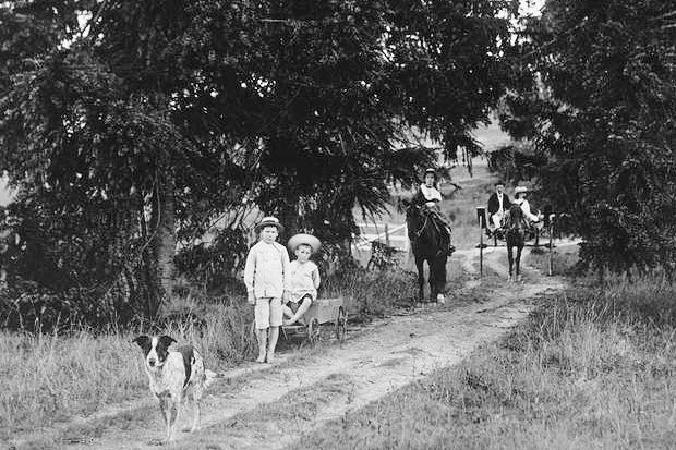 Avenue of pine trees bordering the drive up to Sedgley Grange. Mr and Mrs Trackson in the dogcart and daughter, Win on horseback. The boys, Frank and Charley are using their toy wagon. A cattle dog leads the way.